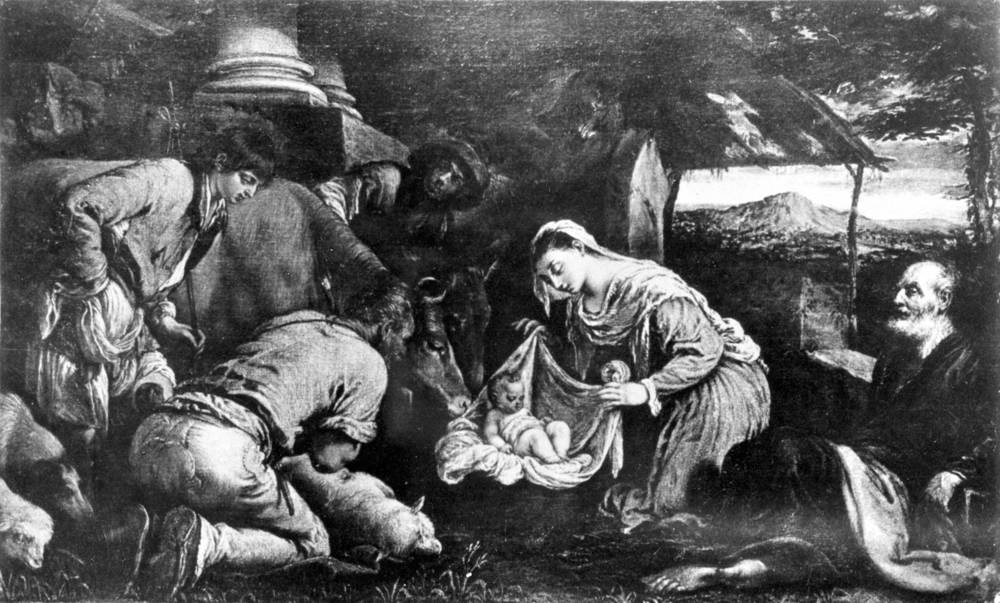 “The Adoration of the Shepherds”, by Francesco Bassano the Younger, painted ca. 1569. This painting was part of the collections of the Gemäldegalerie Alte Meister in Dresden and It has been considered destroyed since 1945. - Dimensions: 67 x 109 cm - Oil on canvas